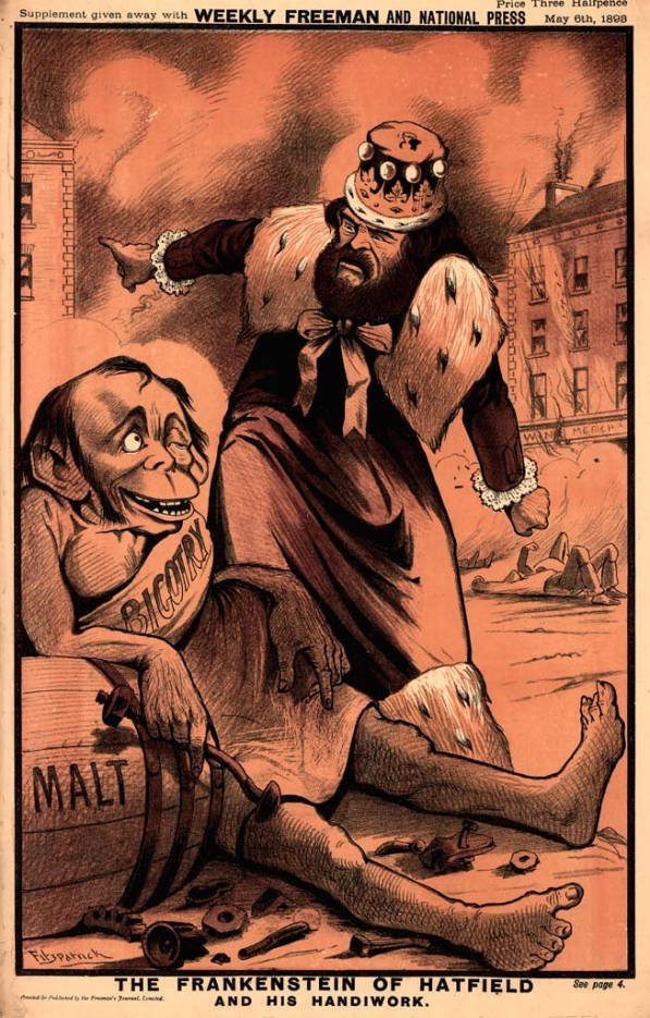 Irish political cartoon by Thomas Fitzpatrick, published in the Weekly Freeman on 6 May 1893, depicting Tory Prime Minister Lord Salisbury creating the drunken monster "bigotry" to foment sectarian riots in Belfast and undermine the Home Rule movement.